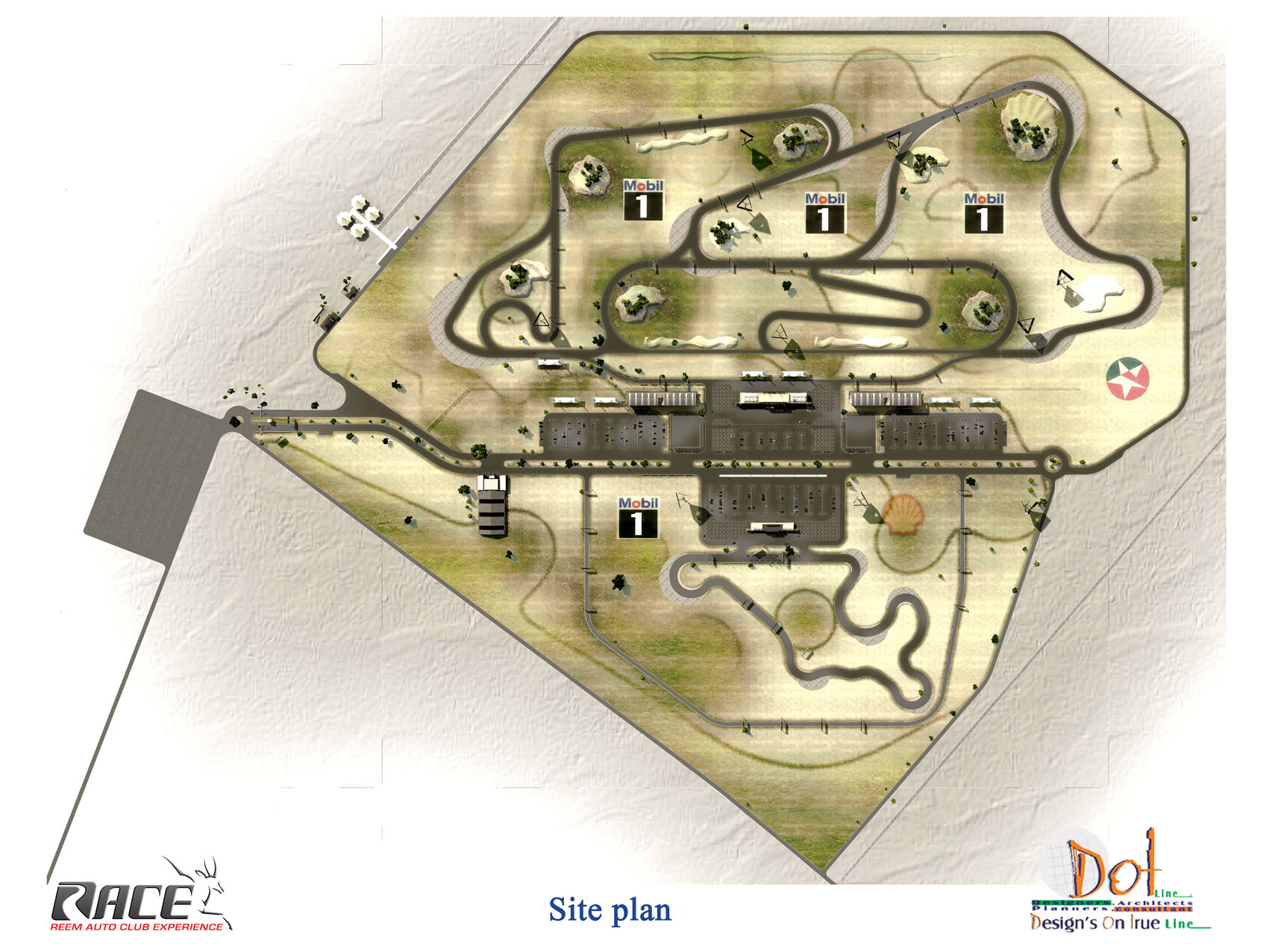 Reem International Circut